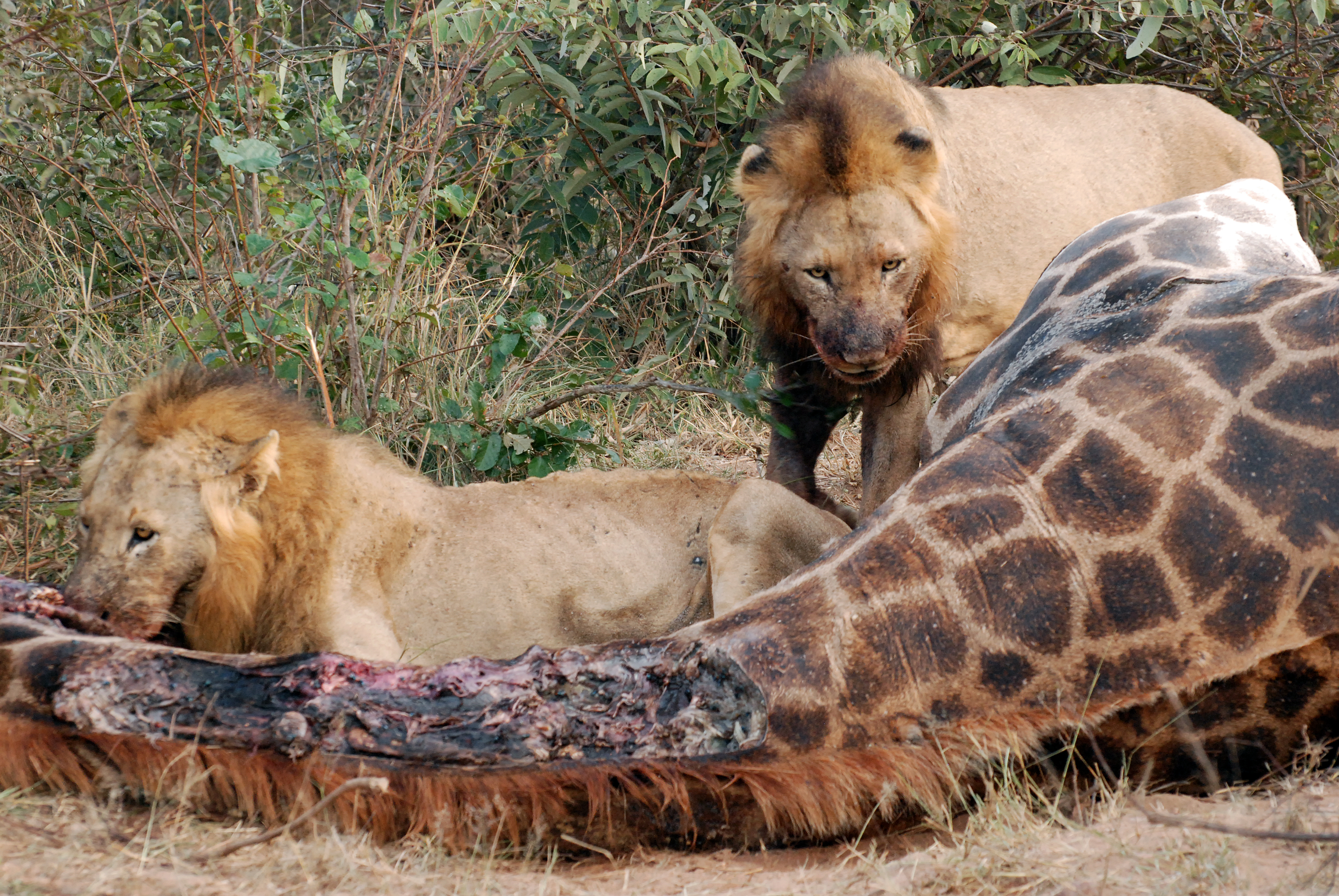 On the morning game drive / the morning after the Lions take down a Giraffe